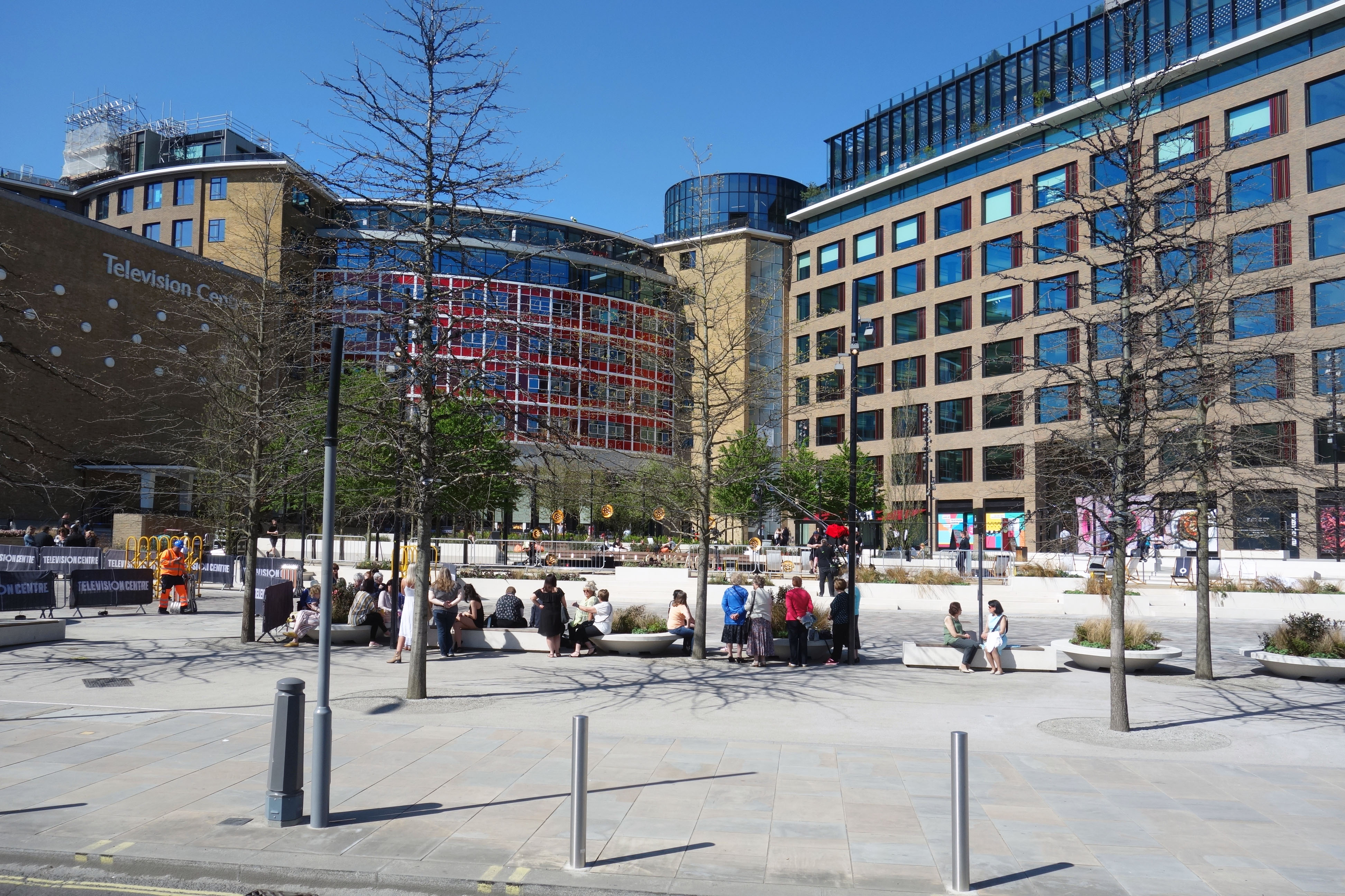 Outside the Television Centre